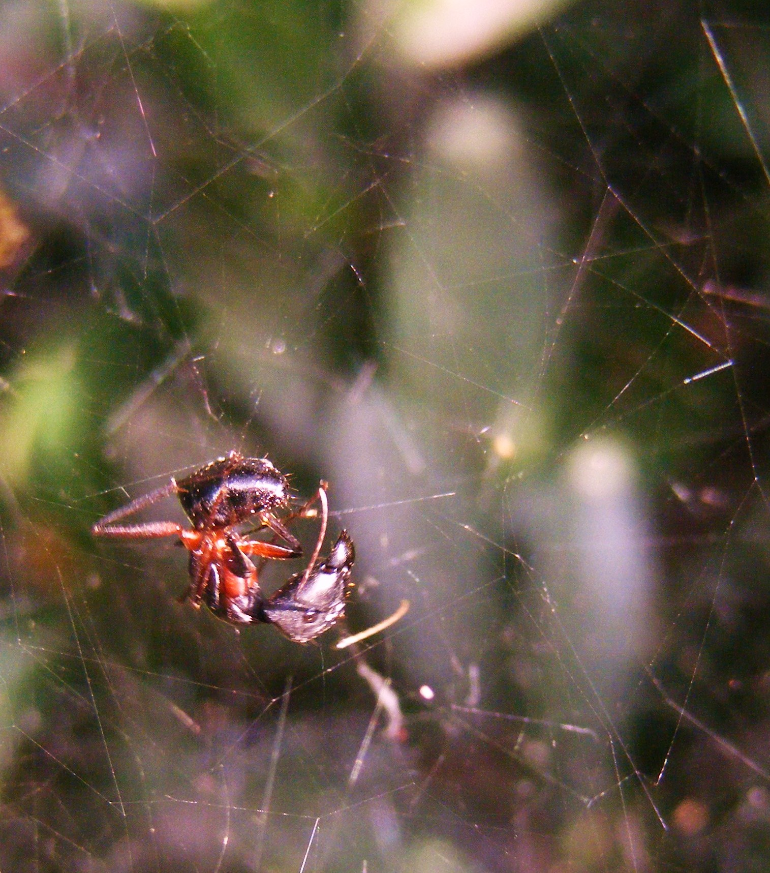 Soldier ant caught in the web of a common garden spider